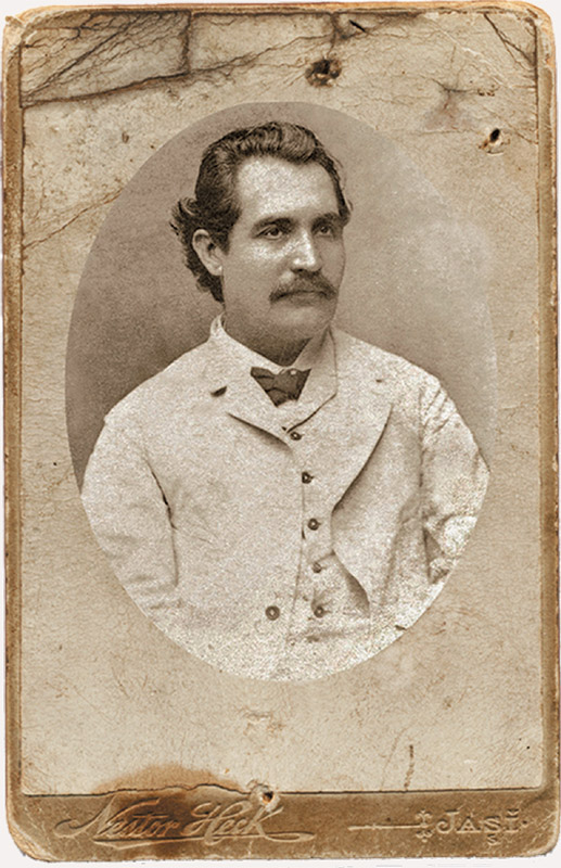 Nestor Heck - Portrait of Mihai Eminescu, Iasi, 1884, owner: "Memorialul Ipoteşti - Centrul Naţional de Studii Mihai Eminescu" from Ipotesti.